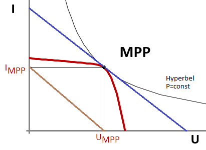 Shows geometrical properties of maximum power points (MPPs)